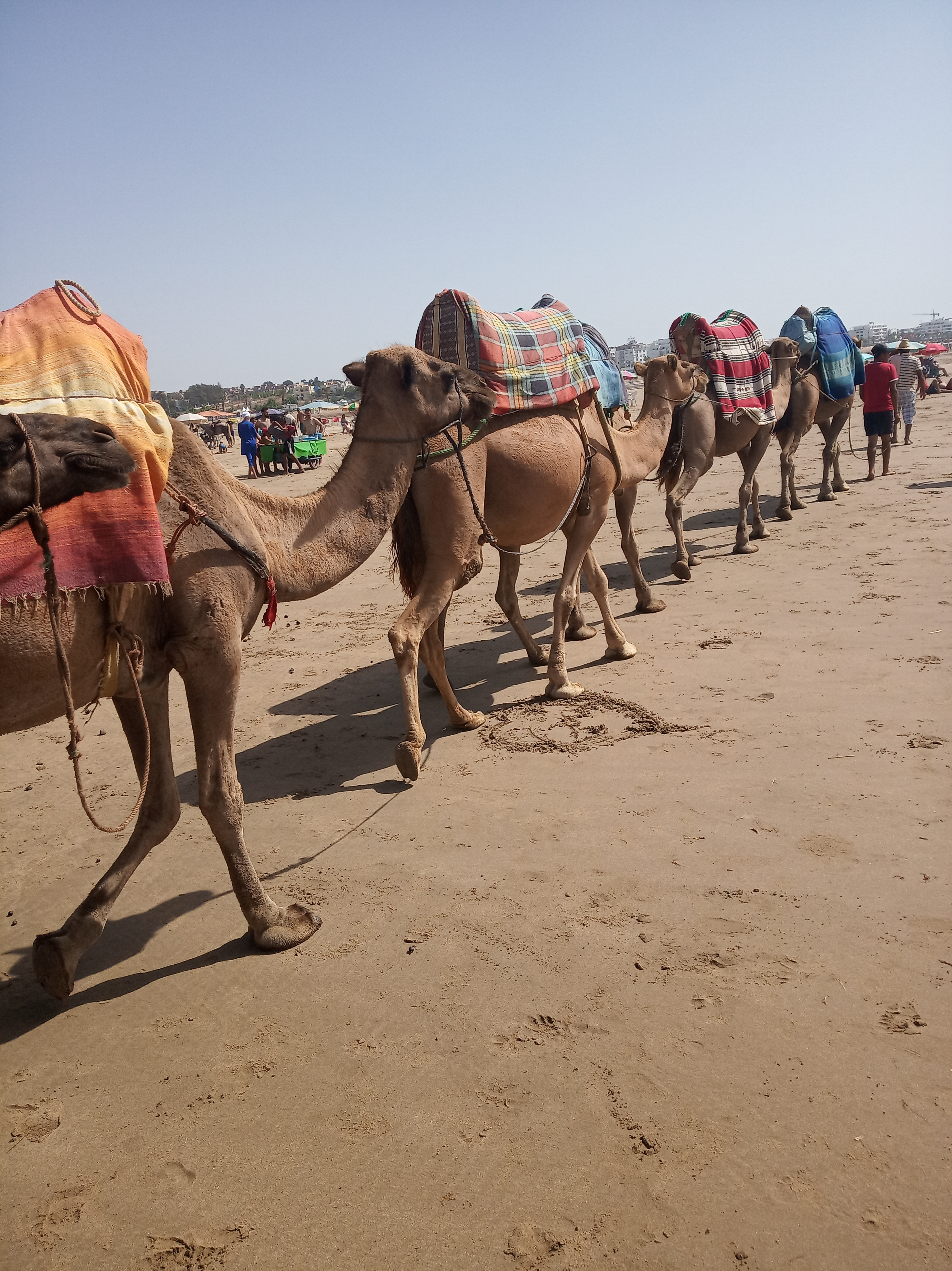 This is an image with the theme "Africa on the Move or Transport" from: Morocco